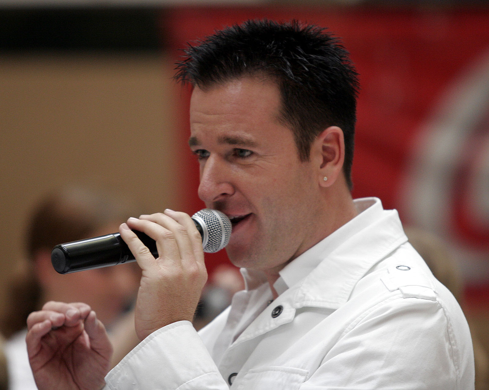 Michael Wendler, German singer, during the Schlecker Cup 2007 in Ehingen (Germany)